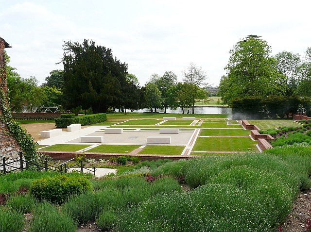 The lawns outlined with brick and stone represent the location of different rooms in the demolished house.